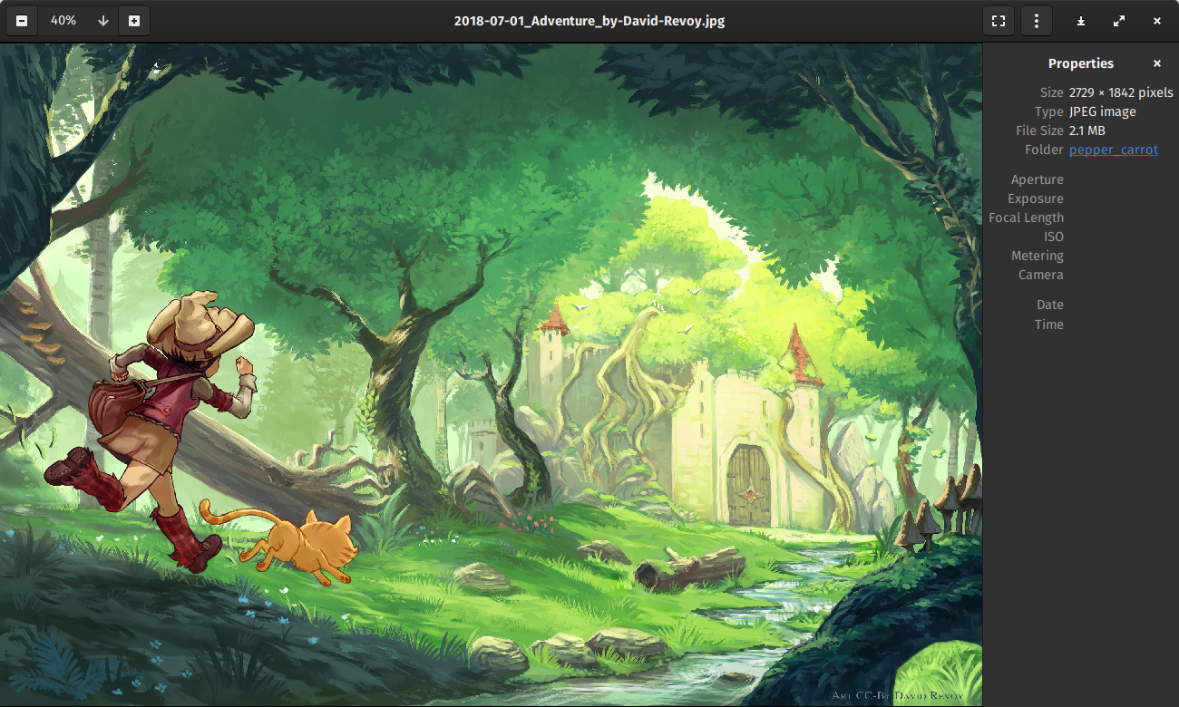 Screenshot of GNOME Image Viewer 3.32